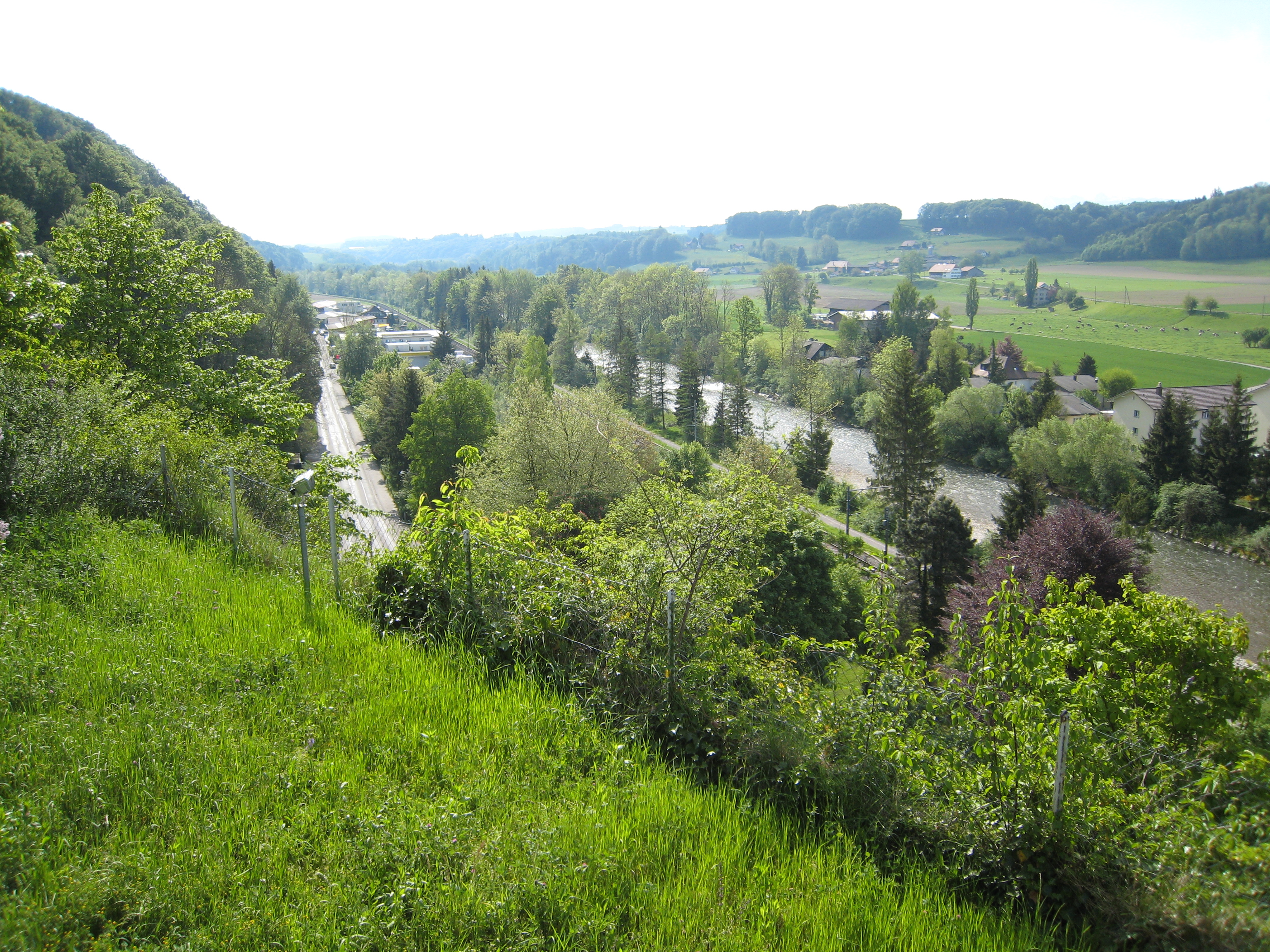 The river Sense near Laupen, Switzerland.